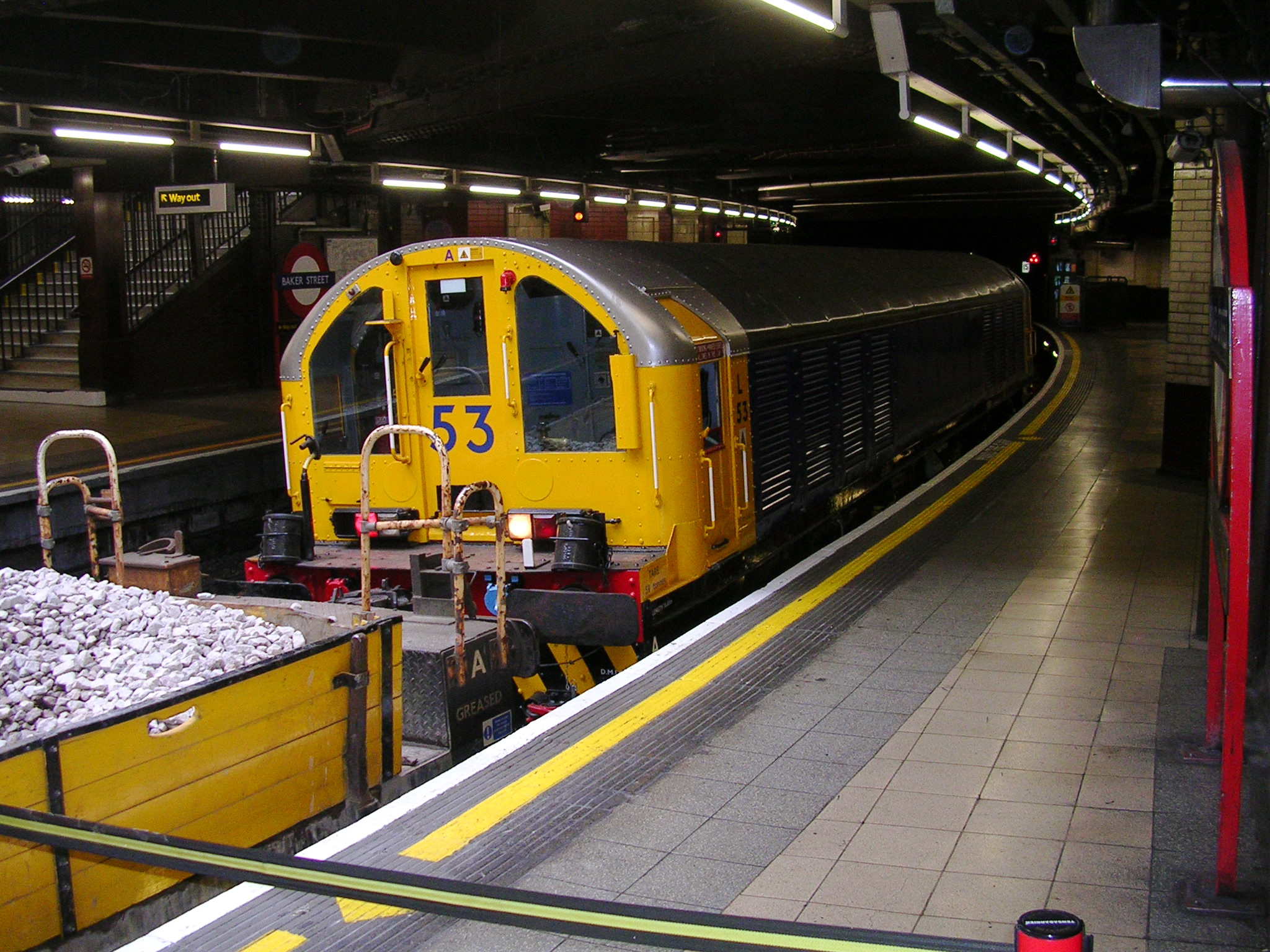 L53 battery-electric locomotive at Baker Street tube station, London, July 23rd 2006. Pulling a train of ballast.